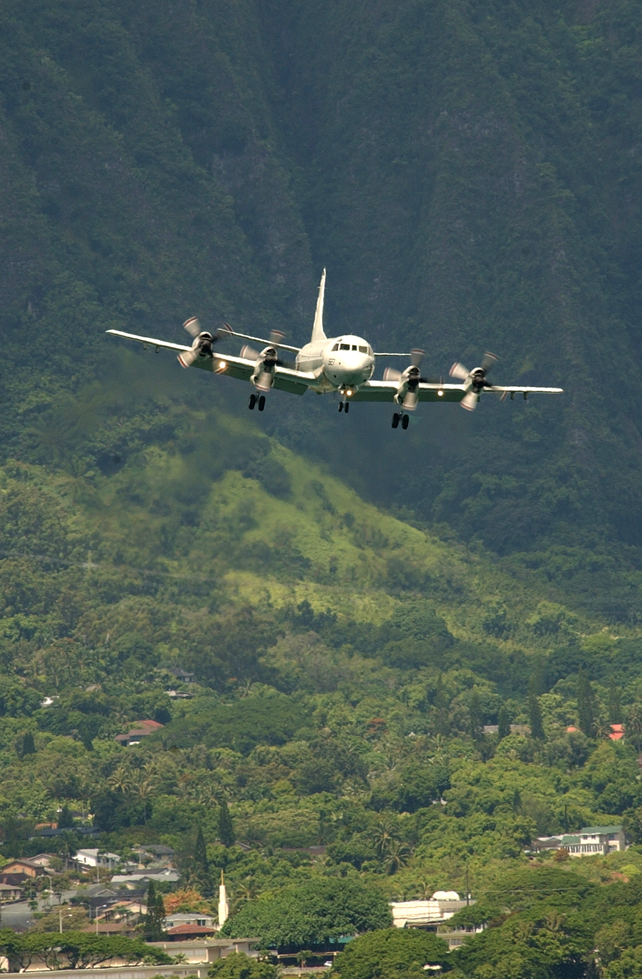 Marine Corps Base Hawaii (July 7, 2004) — A U.S. Navy P-3C Orion approaches the landing area at Marine Corps Air Station Kaneohe, Hawaii, during exercise Rim of the Pacific (RIMPAC) 2004. RIMPAC is the largest international maritime exercise in the waters around the Hawaiian Islands. This years exercise includes seven participating nations; Australia, Canada, Chile, Japan, South Korea, the United Kingdom and the United States. RIMPAC is intended to enhance the tactical proficiency of participating units in a wide array of combined operations at sea, while enhancing stability in the Pacific Rim region. U.S. Navy photo by Photographer's Mate 2nd Class Richard J. Brunson (RELEASED) For more information go to